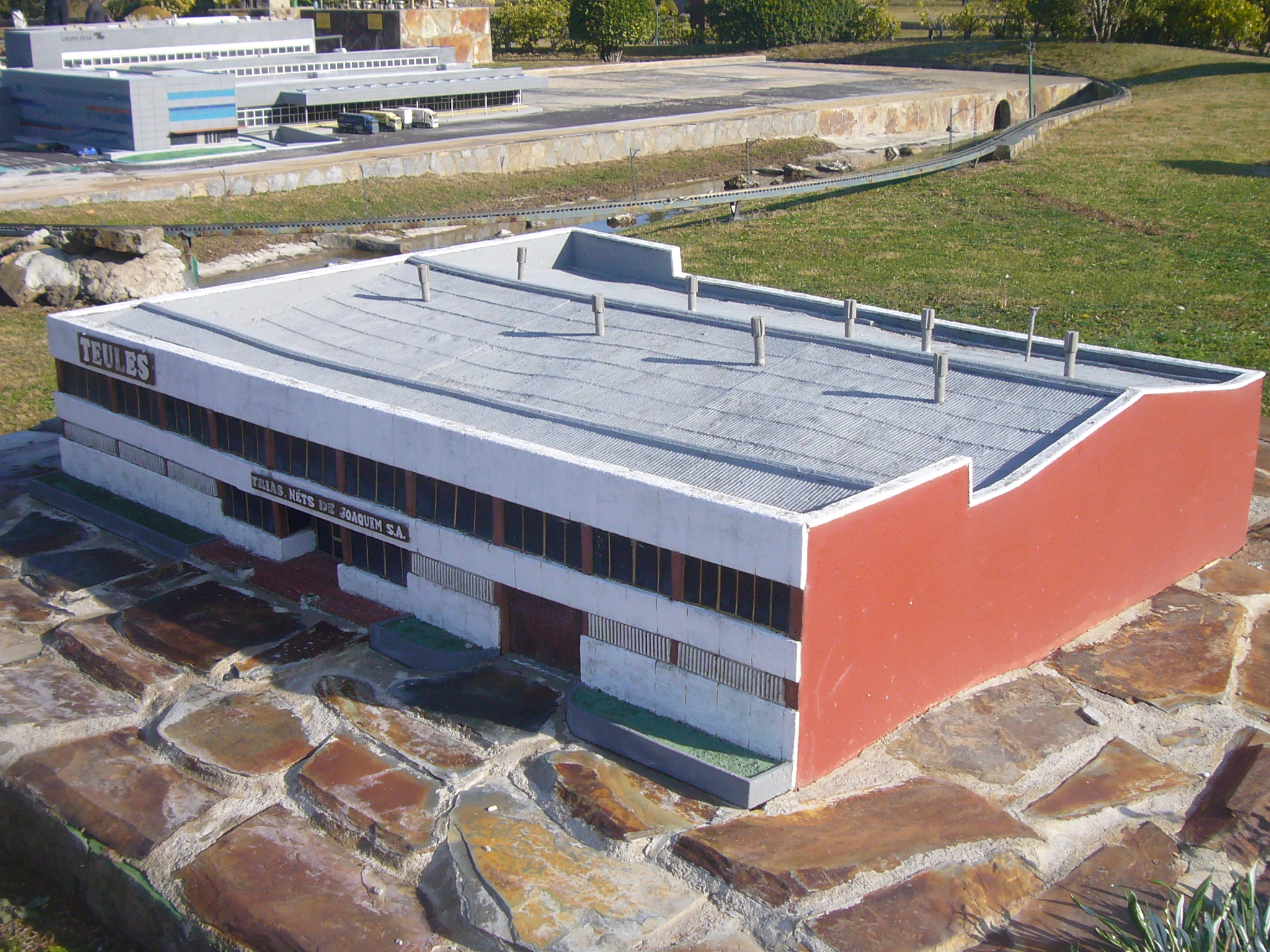 Scale model at the "Catalunya en Miniatura" miniature park : Biscuit factory "Néts de Joaquim Trias" (in Santa Coloma de Farners)